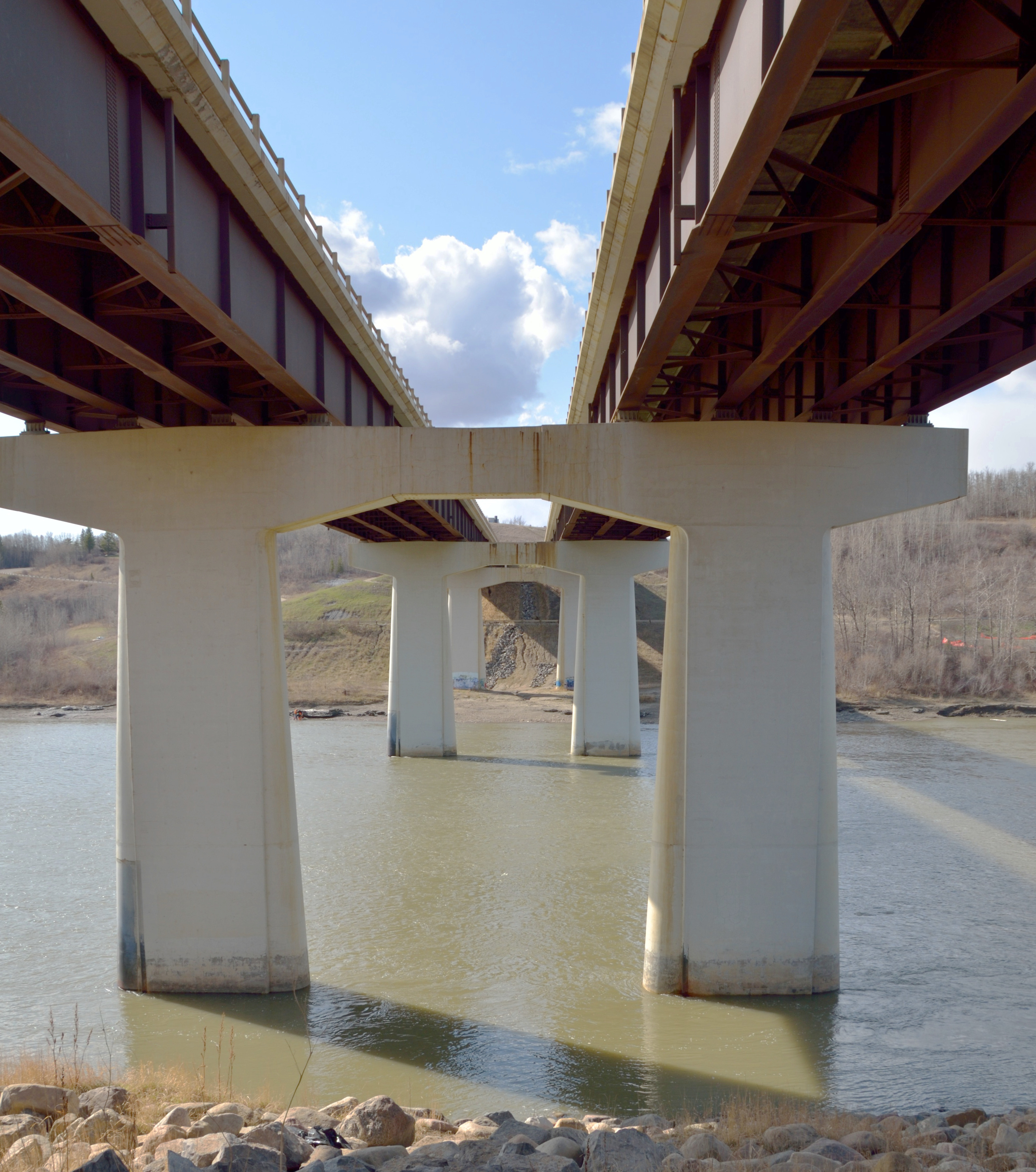 Twin bridges carrying Alberta Highway 60 over the North Saskatchewan River near Devon, Alberta, Canada.